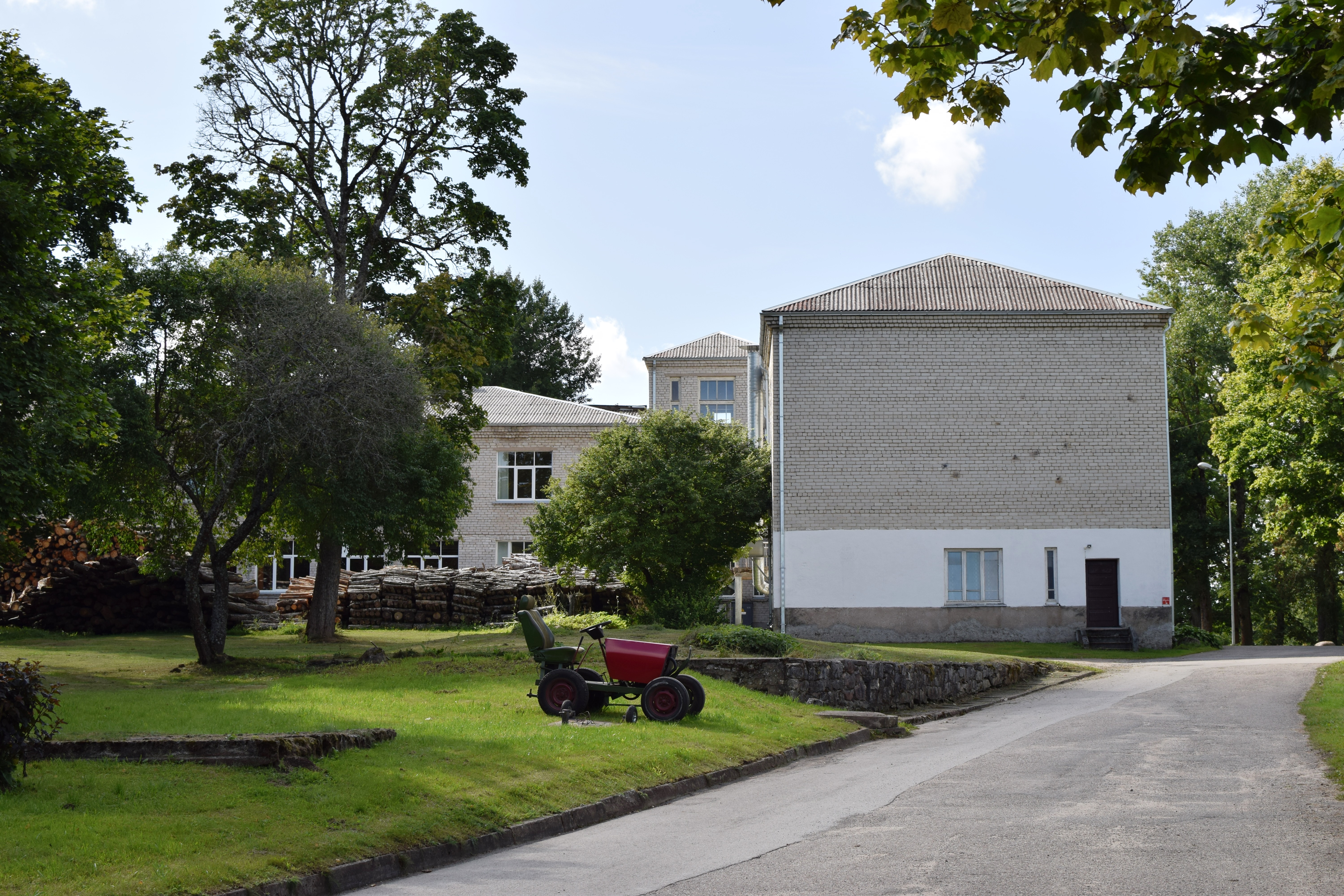 Saldus Municipality